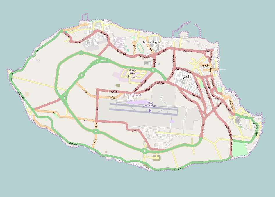 Kish Island